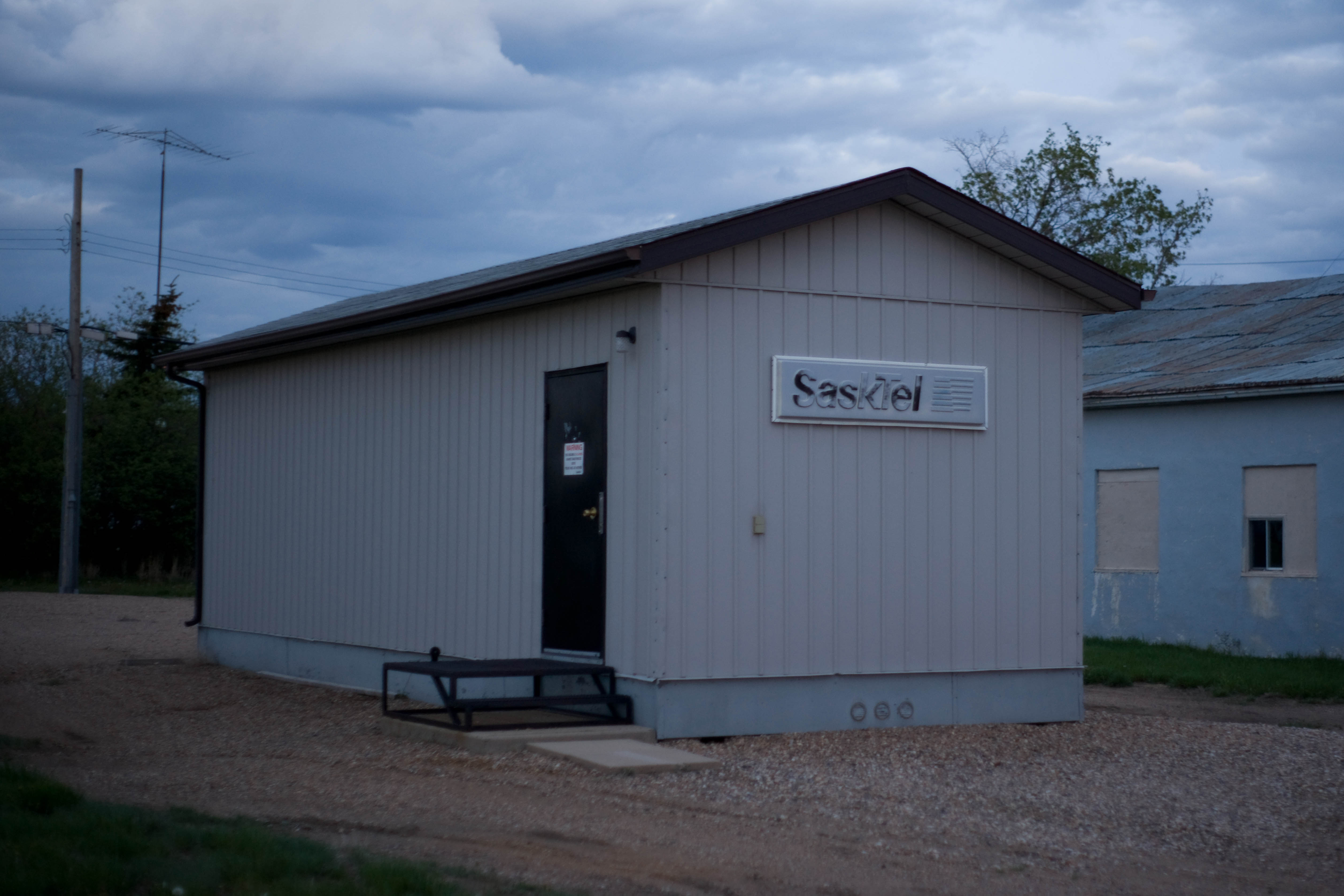 From